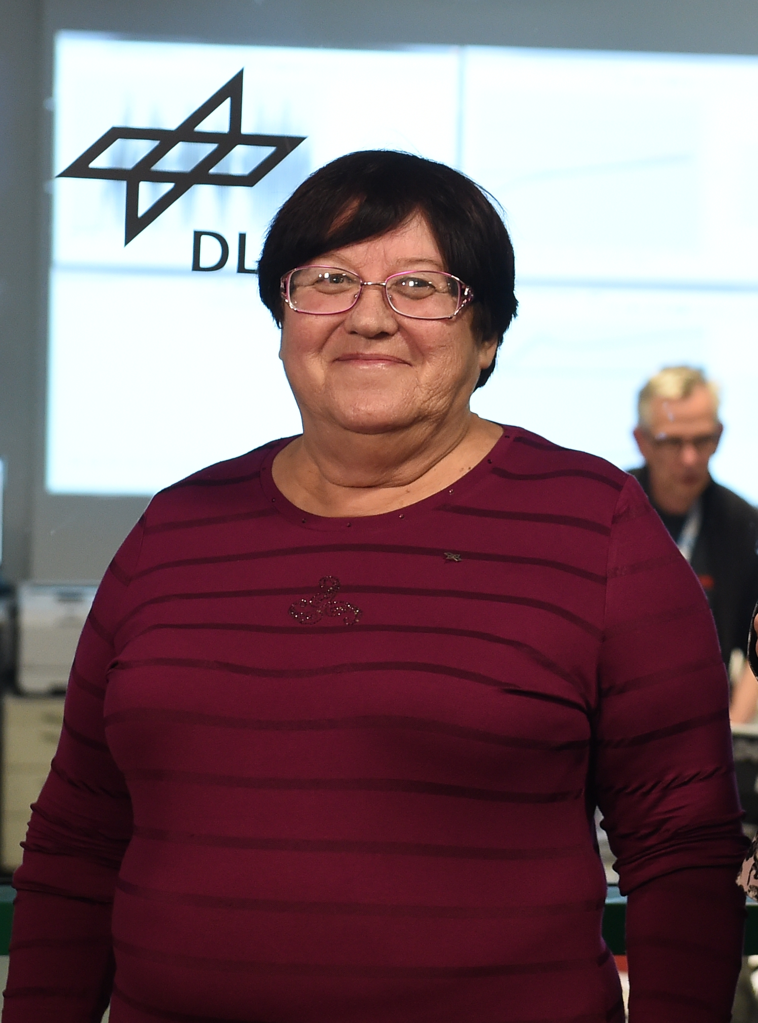 Svetlana Gerasimenko